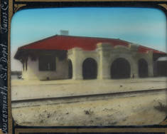 Southern Pacific Railroad Station in Owensmouth (present day Canoga Park), circa 1913 — in the western San Fernando Valley, Los Angeles, California. • Formerly located at 21355 Sherman Way, the station was built in 1912. It was one of the few Spanish Colonial Revival style railroad stations in the Valley to survive into the late 20th century. • The Owensmouth Station was declared a Los Angeles Historic-Cultural Monument on 30 May 1990. • In 1995 it was significantly damaged by fire, and subsequently demolished. Credits Photographers: Putnam & Valentine. Hand-colored lantern slide, 4 x 3.5 in.